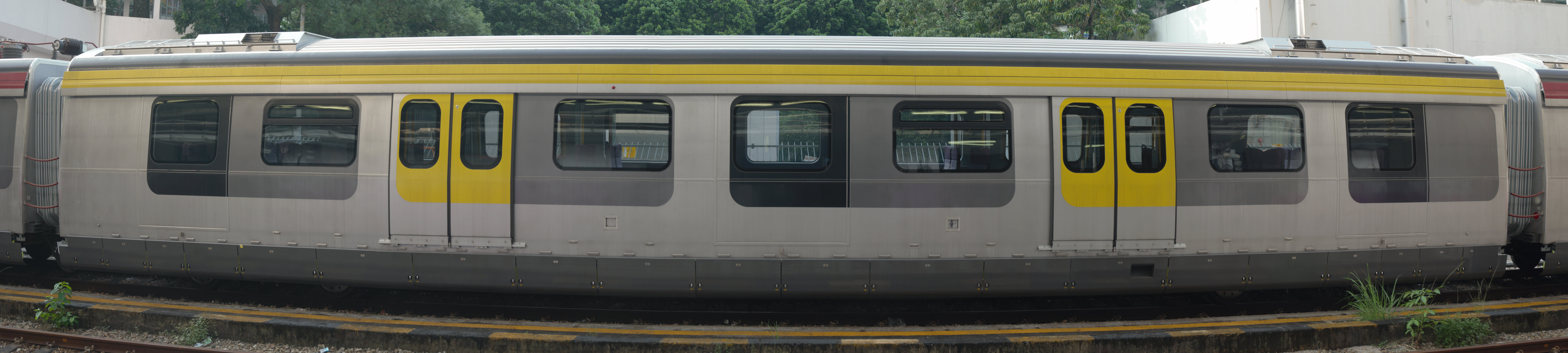 MTR East Rail Line Hyundai Rotem EMU - Compartment F005 - Side (first class compartment)